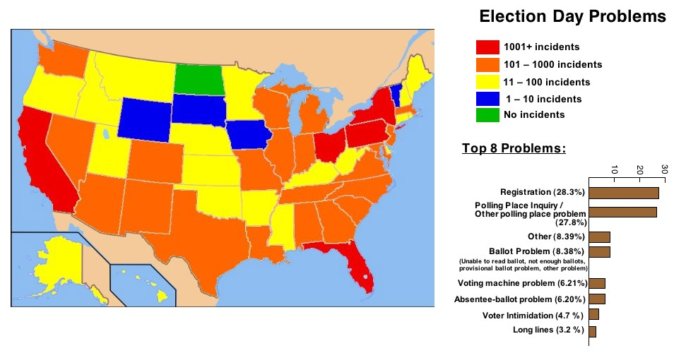 I modified the image image:Map_of_USA_with_state_names.svg (for copyrights, see that image). This is also a modified version of Image:2004 us per 1000004.png by User:Kevin Baas with new data included in the newer version Information source: [1]